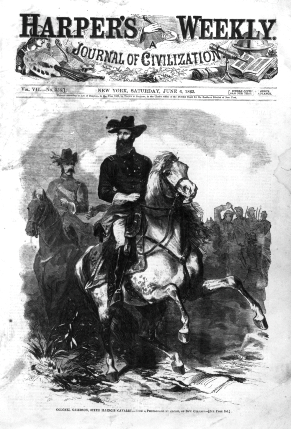 Col. Benjamin Henry Grierson leading his cavalry troops. Engraved illustration on cover of "Harper's Weekly"